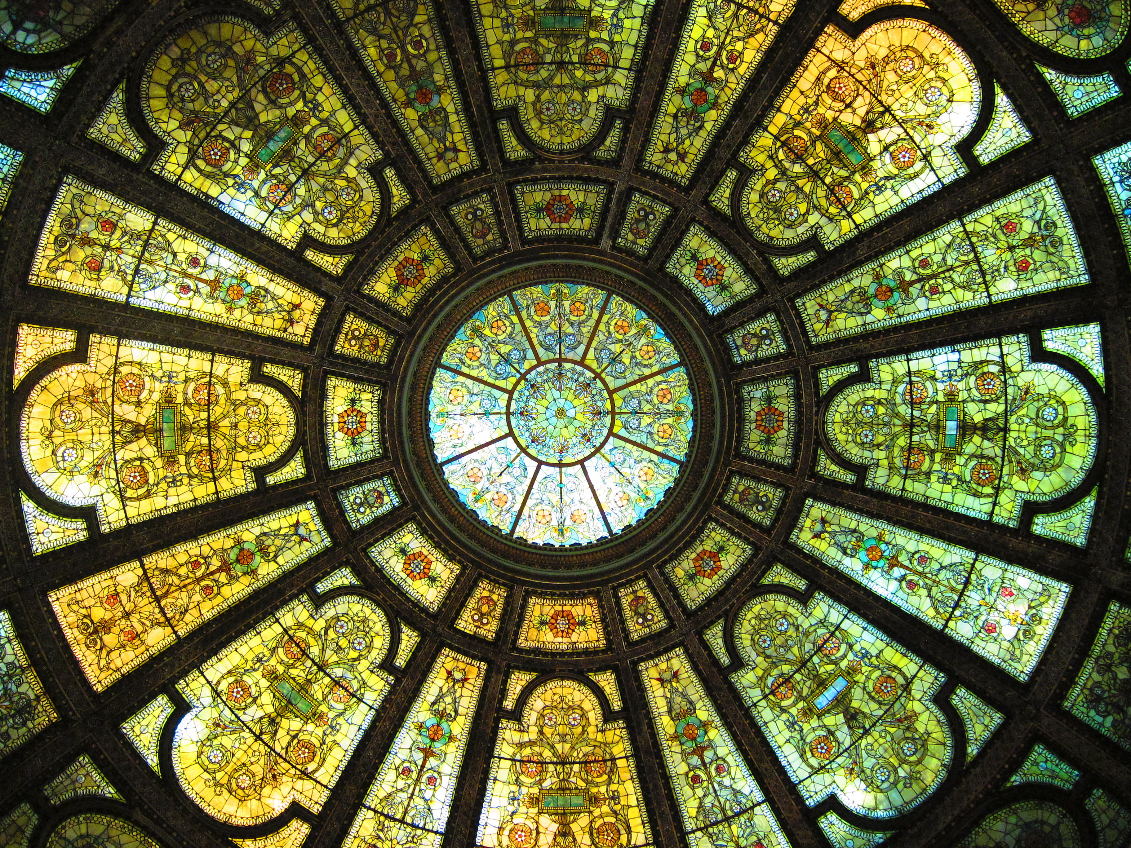 Chicago Cultural Center - dome stained glass window